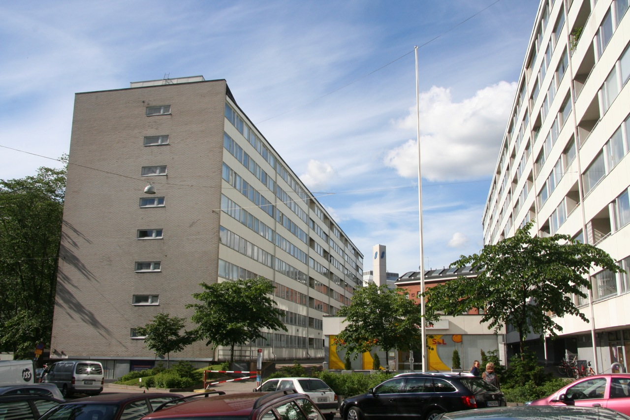 Apartment blocks in Alppiharju, Helsink. Architect Toivo Korhonen (1962)